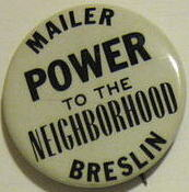 Button from the Mailer-Breslin Campaign for Mayor of New York City, 1969.